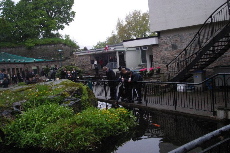 Akvariet (Aquarium), Bergen (Norway)